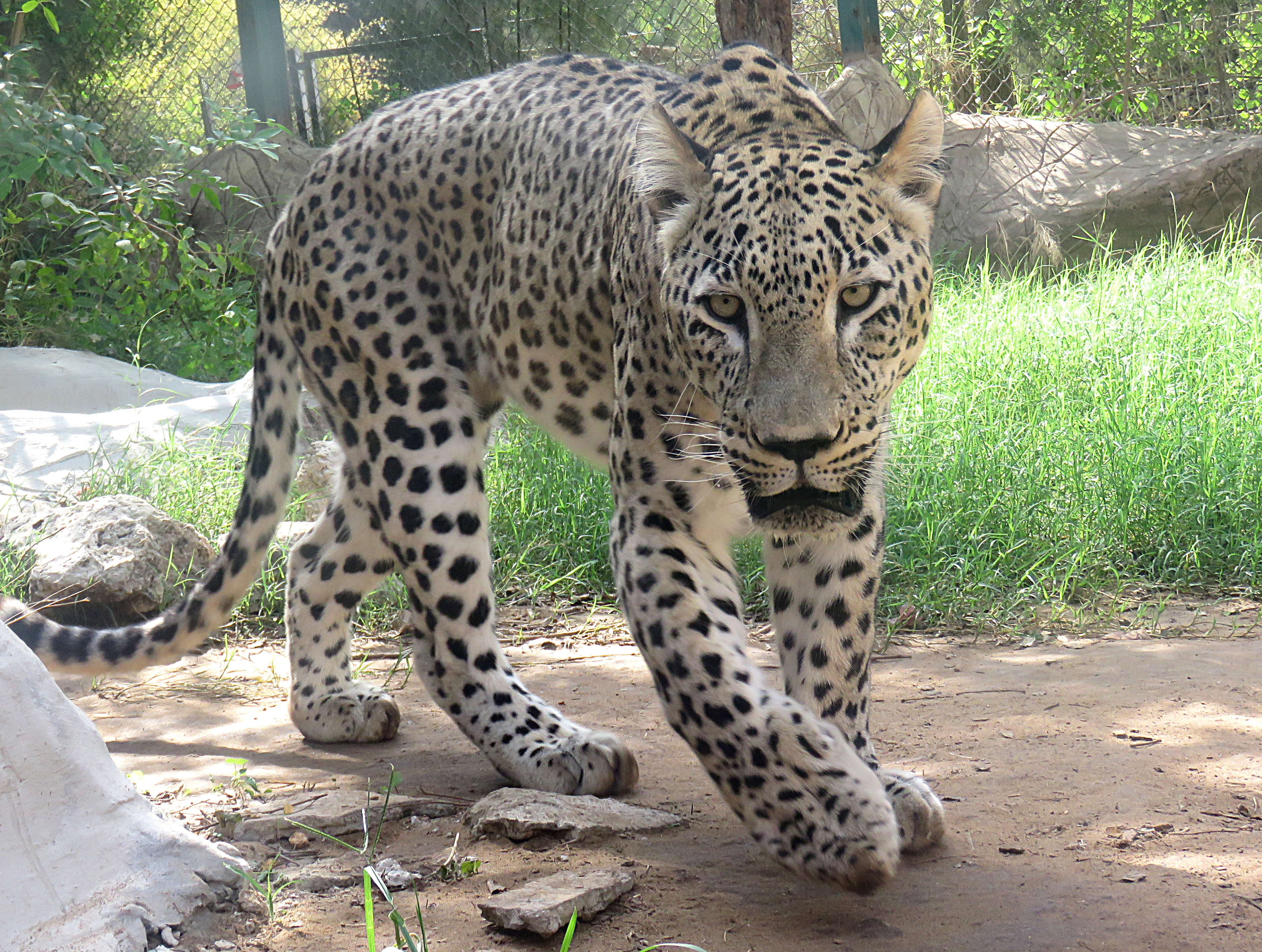 Ramat Gan Safari